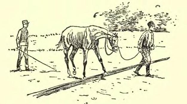 Jumping. First lesson while on the longe. Illustrations from File:Equitation.djvu, see details; see too File:Equitation_images.djvu where the same images are bundled into a single djvu file